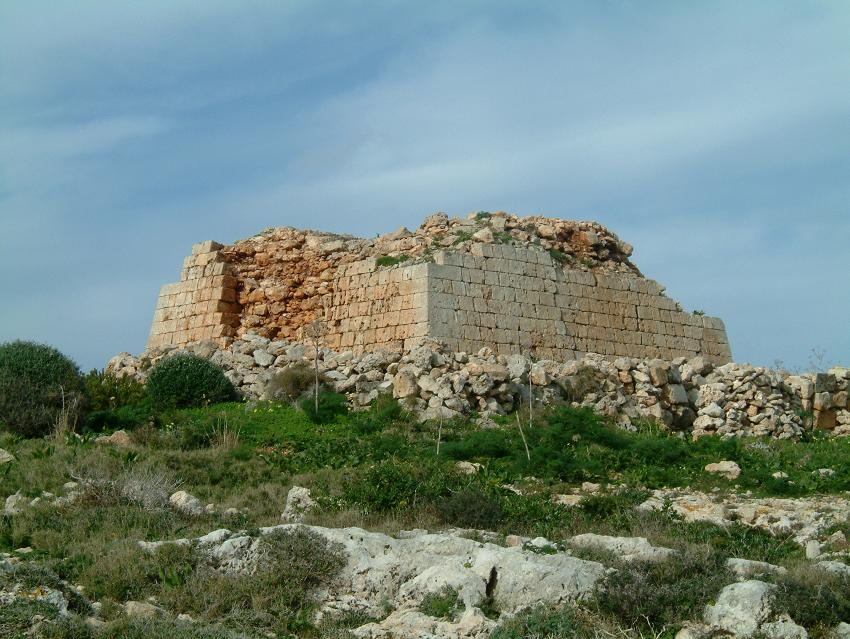 Ghajn Hadid Tower, photo taken coming up hill from the cliffs nearby to the East. Photo by Joseph J. Zarb